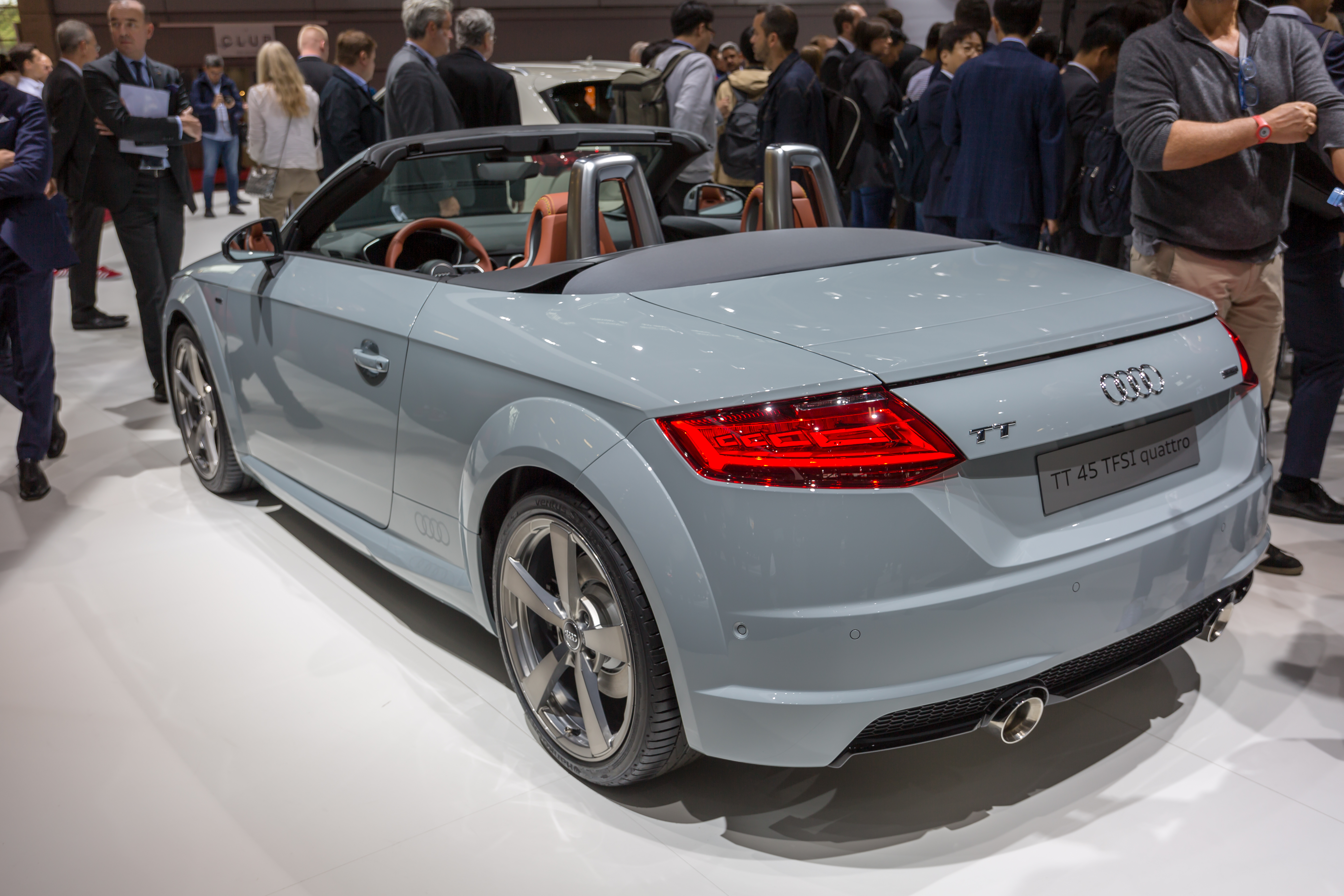 Mondial de l’Automobile de Paris 2018